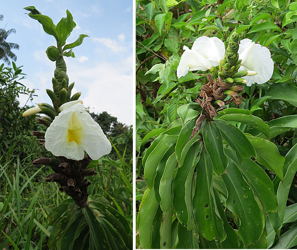 Likely the white from of the strobilaceus subspecies. The species ranges from Honduras to here in the western Amazon.